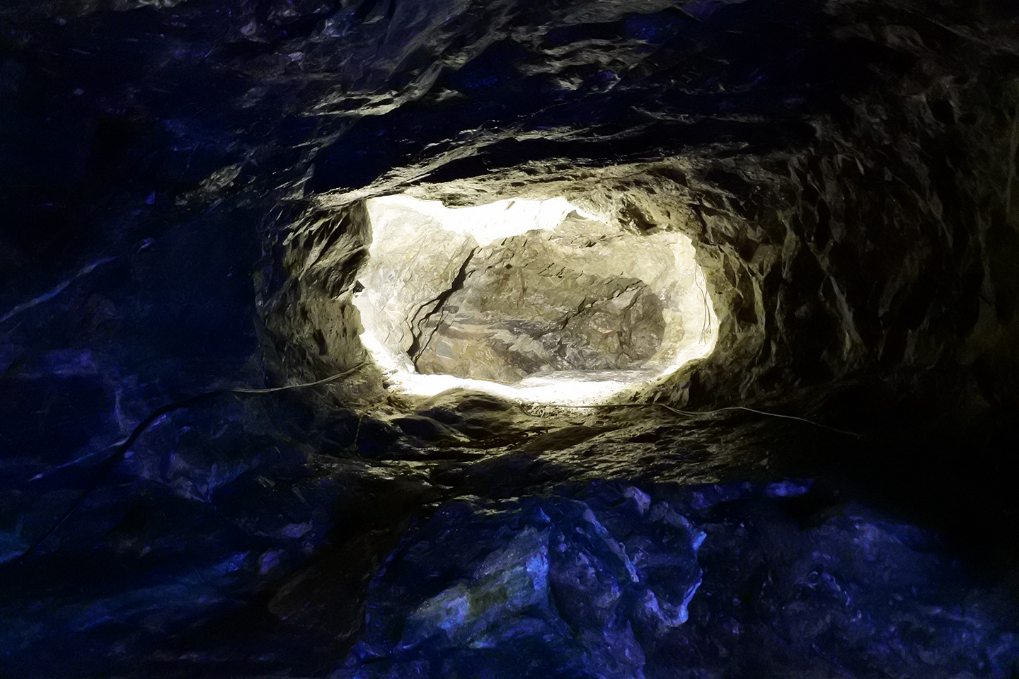 Dim light view of rocks upward in Gwangmyeong Cave, Gyeonggi-do, Korea